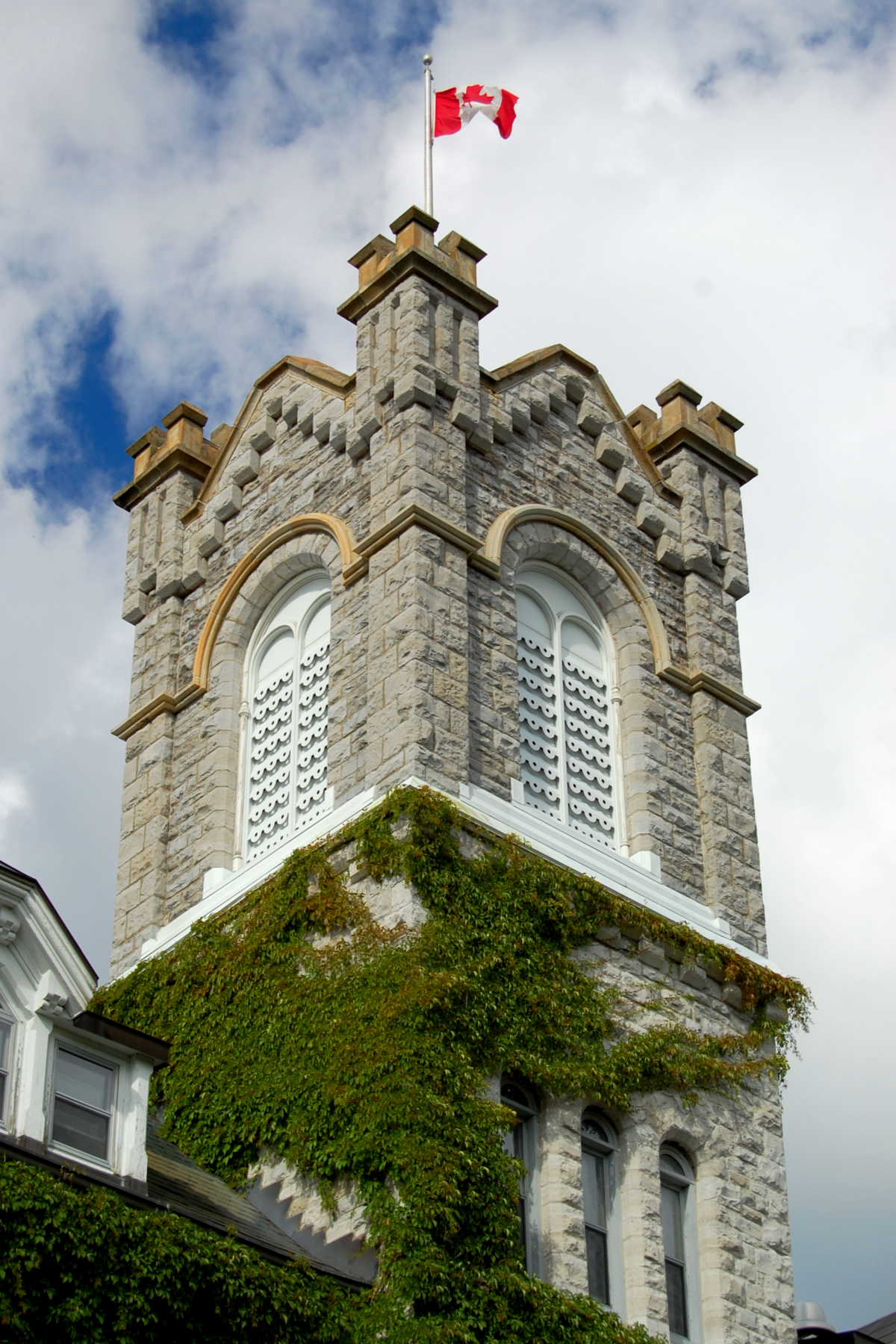 Today, this building is a home of School of Religion and Department of Drama.